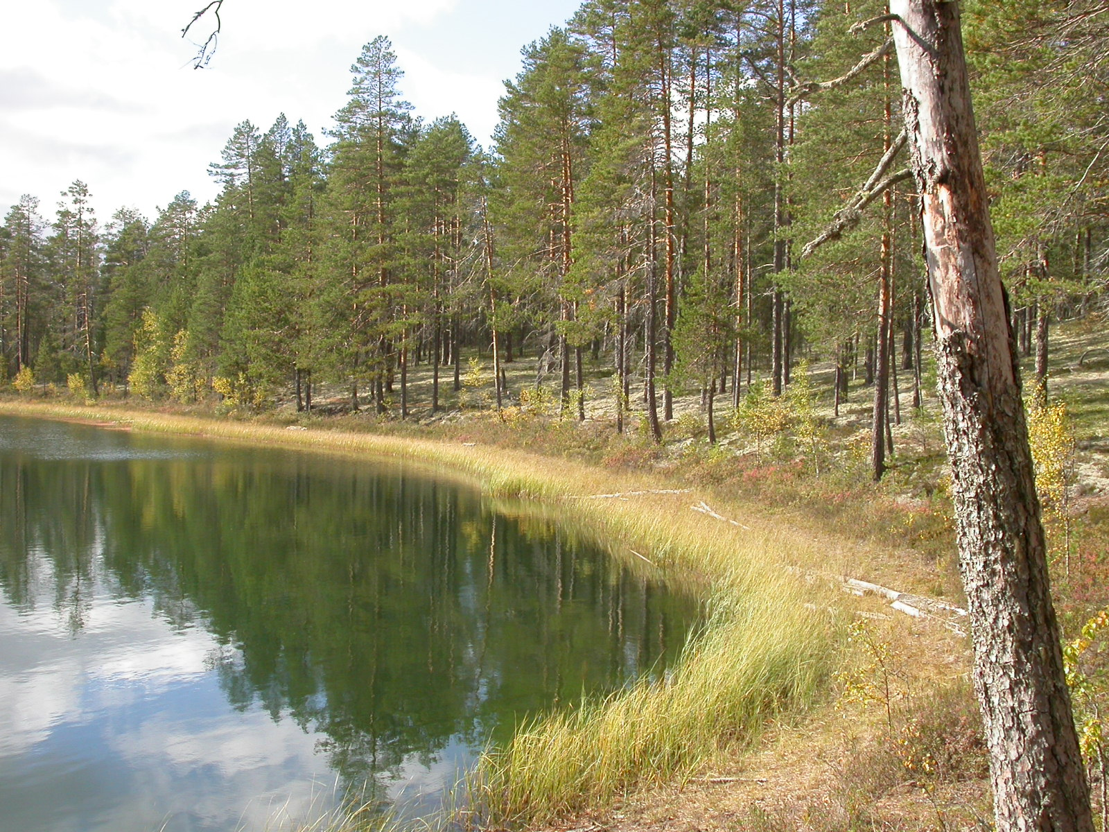 Pitkäjärvi lake (literally Long lake) at Rokua National Park in Utajärvi, Finland